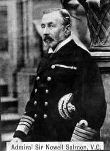 Photograph of Admiral of the Fleet Sir Nowell Salmon from an old cigarette card